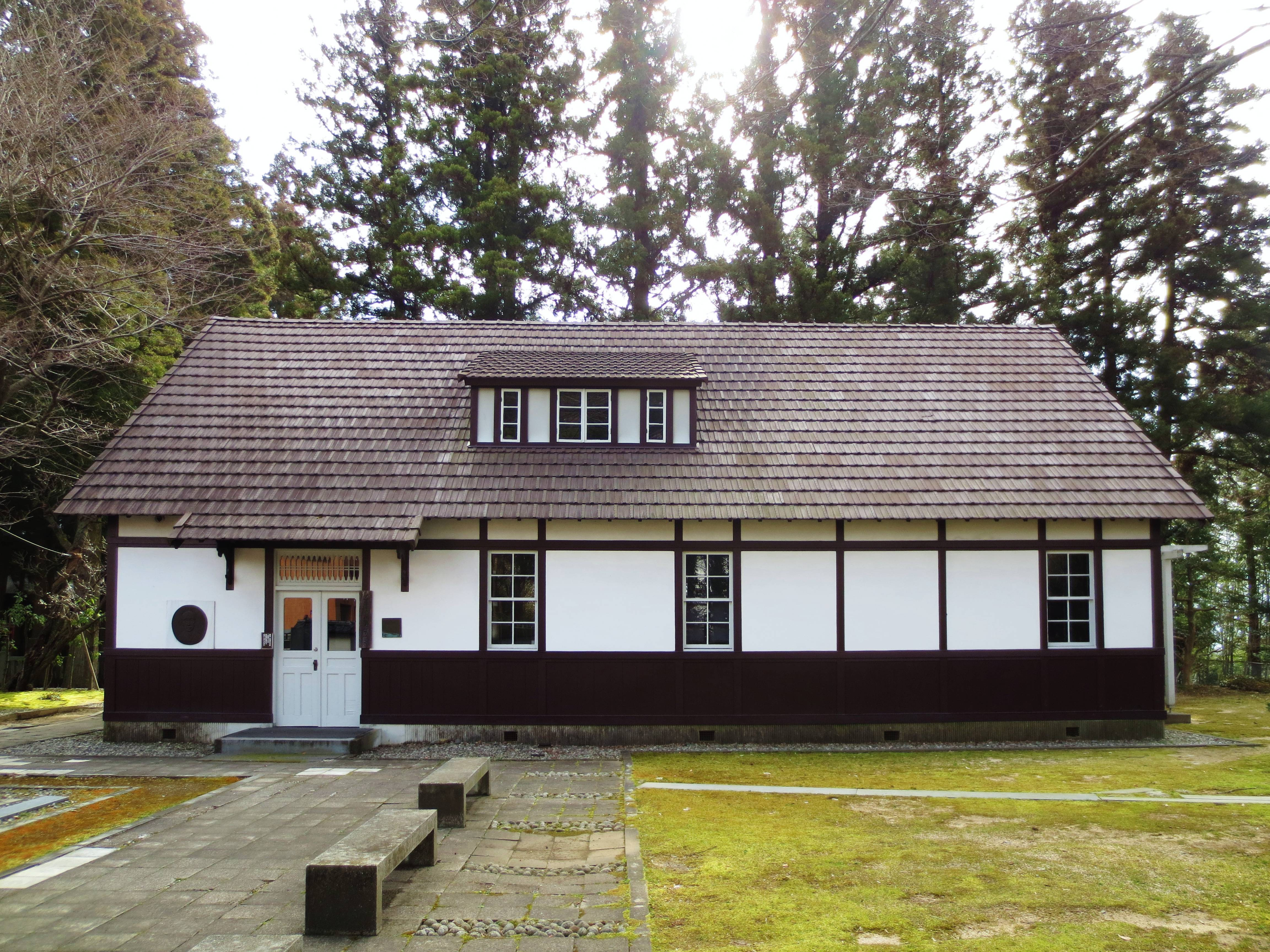 Kunio Yanagita Memorial Hall.